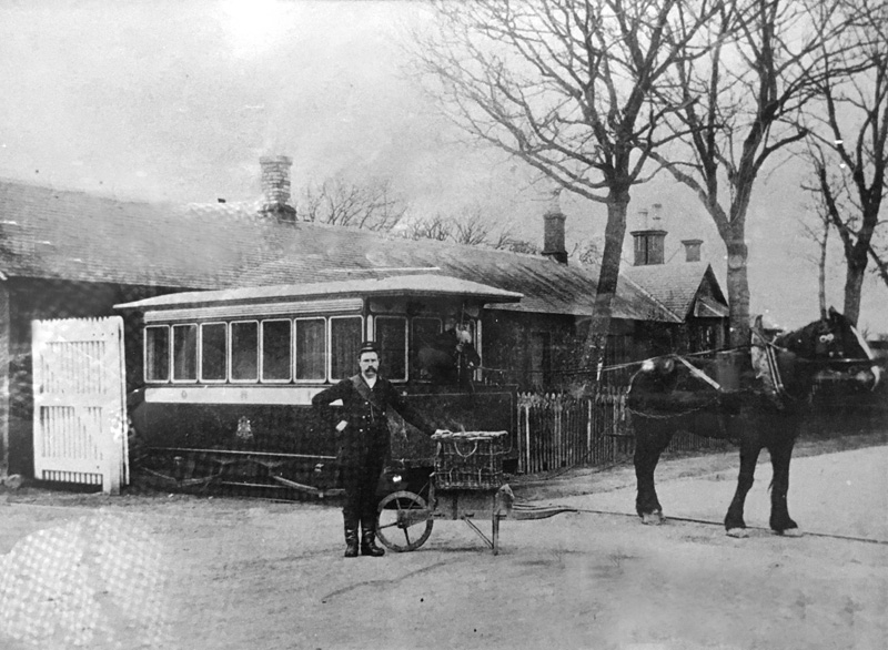 This is a 1905 photograph of the Inchture tram at Inchture railway station